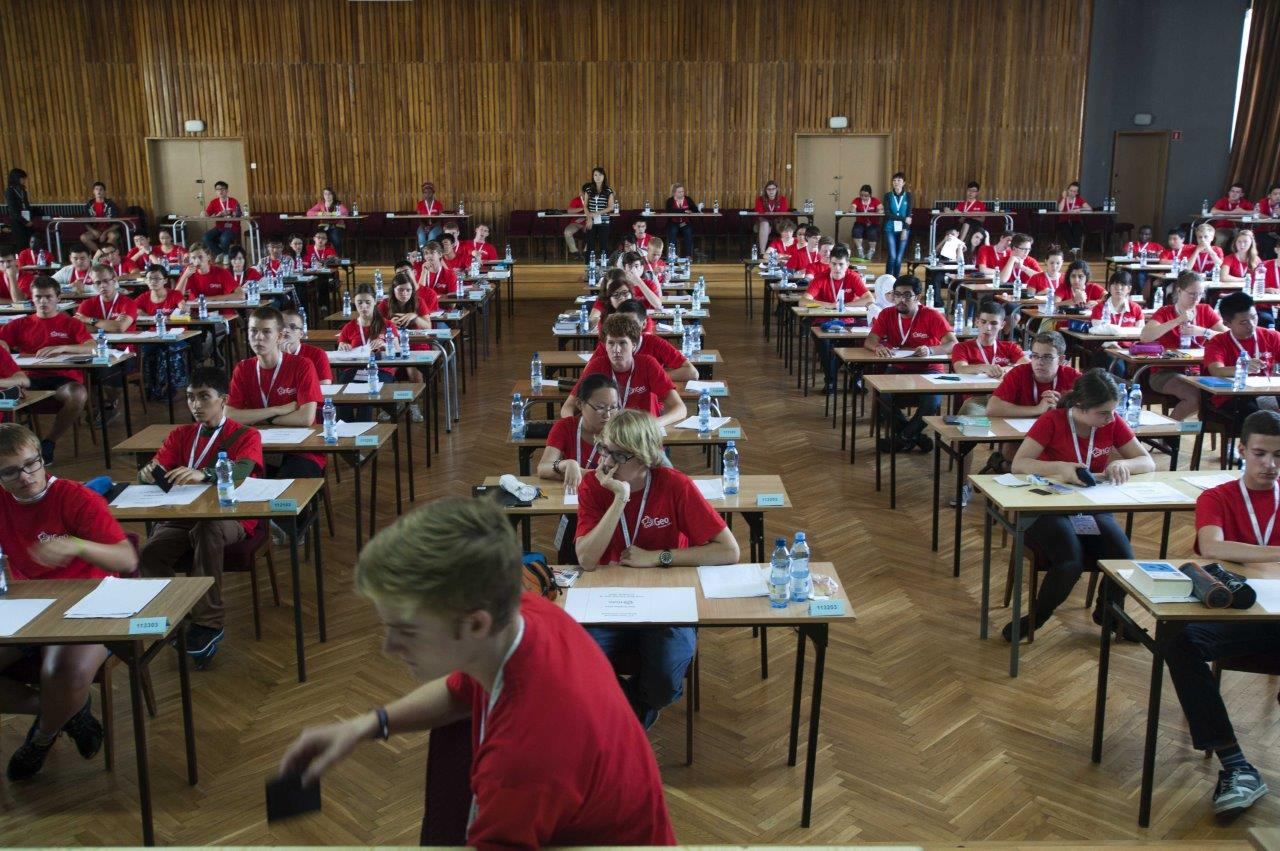 iGeo WRT